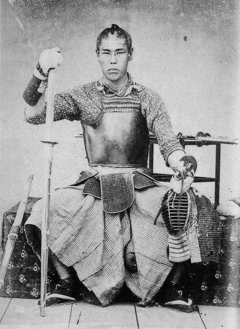 Takasugi Shinsaku, Kendo practitioner in armor-clad fencing